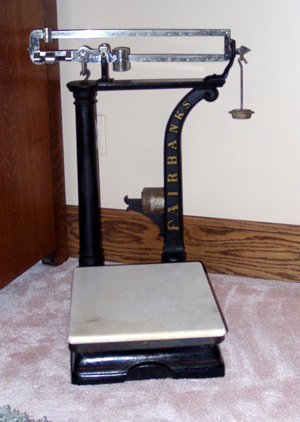 Fairbanks Imperial Butchers' Scale